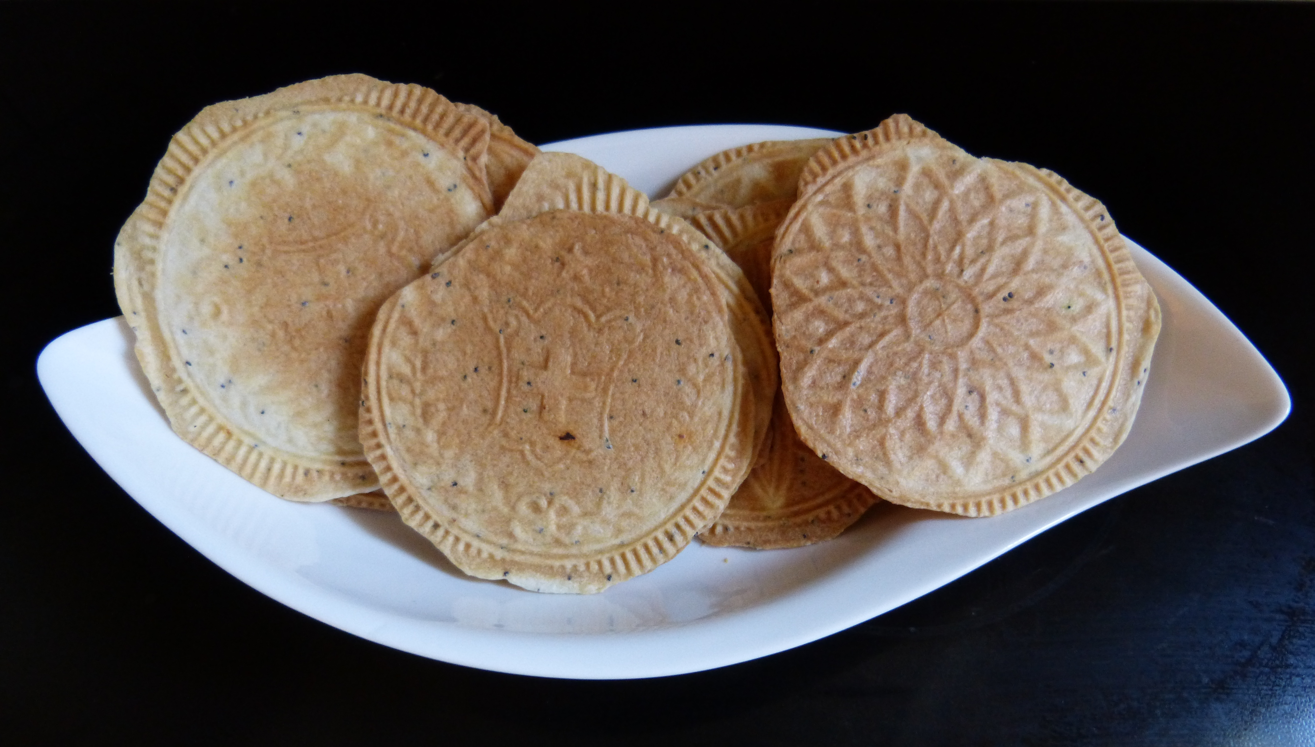 Round bricelets handmade here black cumin flavoured.